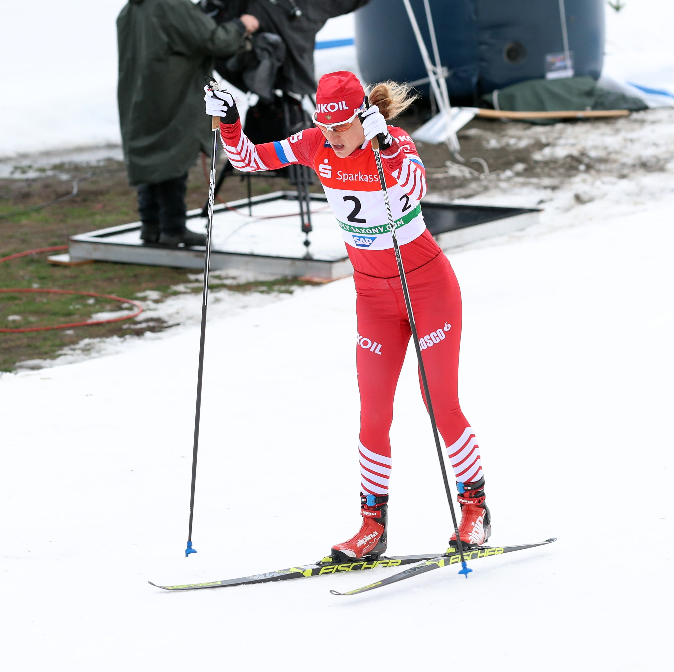 Women's Qualification at the FIS Cross-Country World Cup Dresden 2019 (1.6 km Free Sprint)